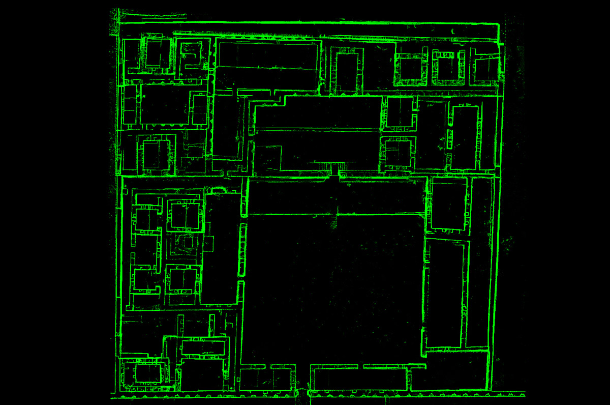 Plan of Northern Palace, Tambo Colorado, cut from a laser scan. The Northern Palace sits on the north side of the Trapezoidal Plaza and forms a rhomboid (uneven square) with sides 57-59 m in length. It faces the valley and its back rises up the slope of a hill. The palace contains three courts (Rooms 1, 9, and 42), which succeed one another and decrease in size from front to back; most of the palace's rooms would have been roofed as well.